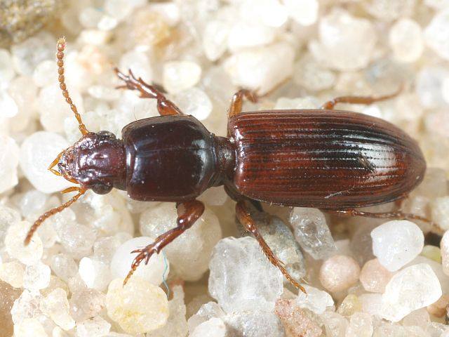 Clivina collaris, location: The Netherlands - Nuenen - Nuenens Broek